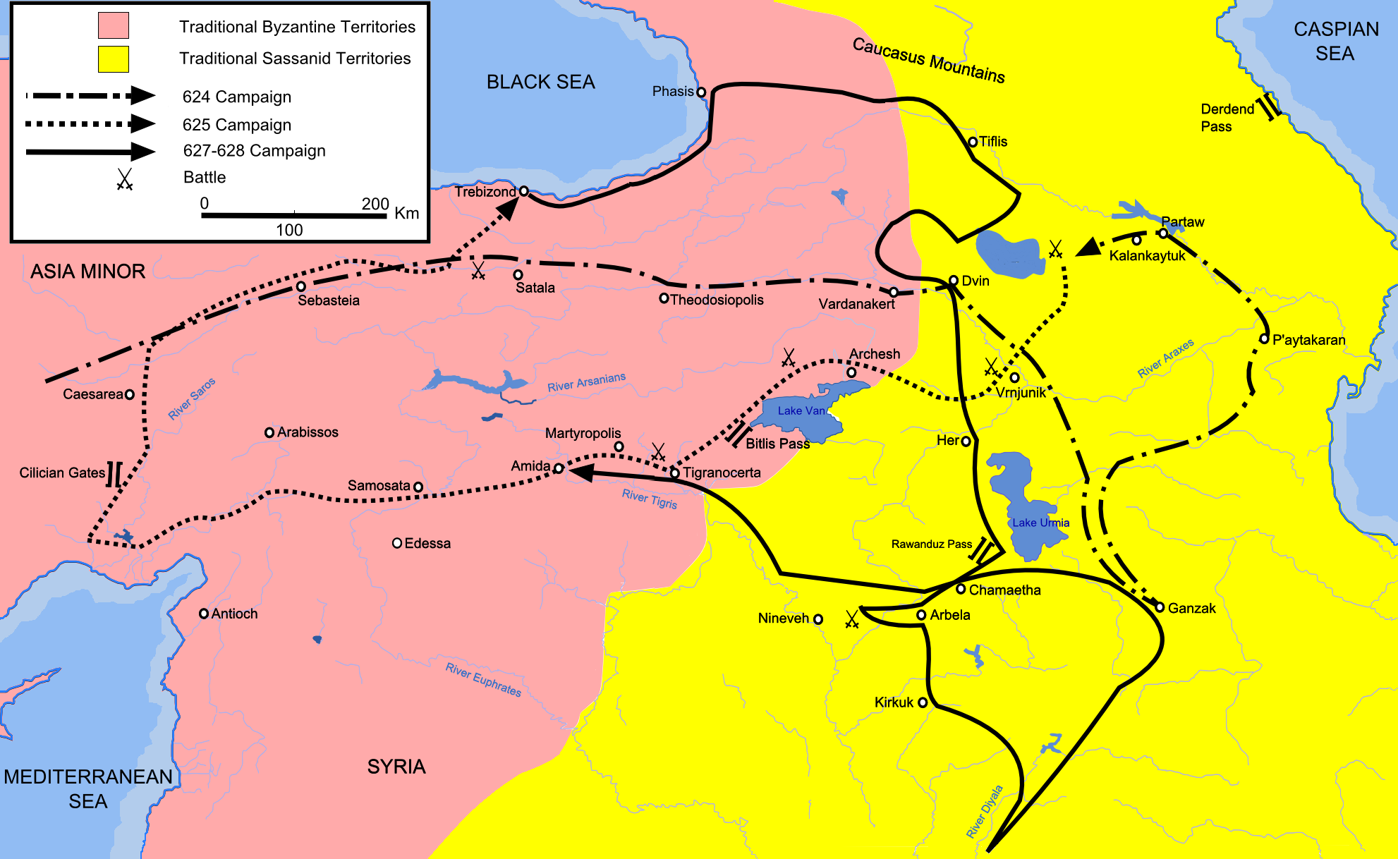 Map detailing route of emperor Heraclius's Mesopotamian campaigns between 624-628.